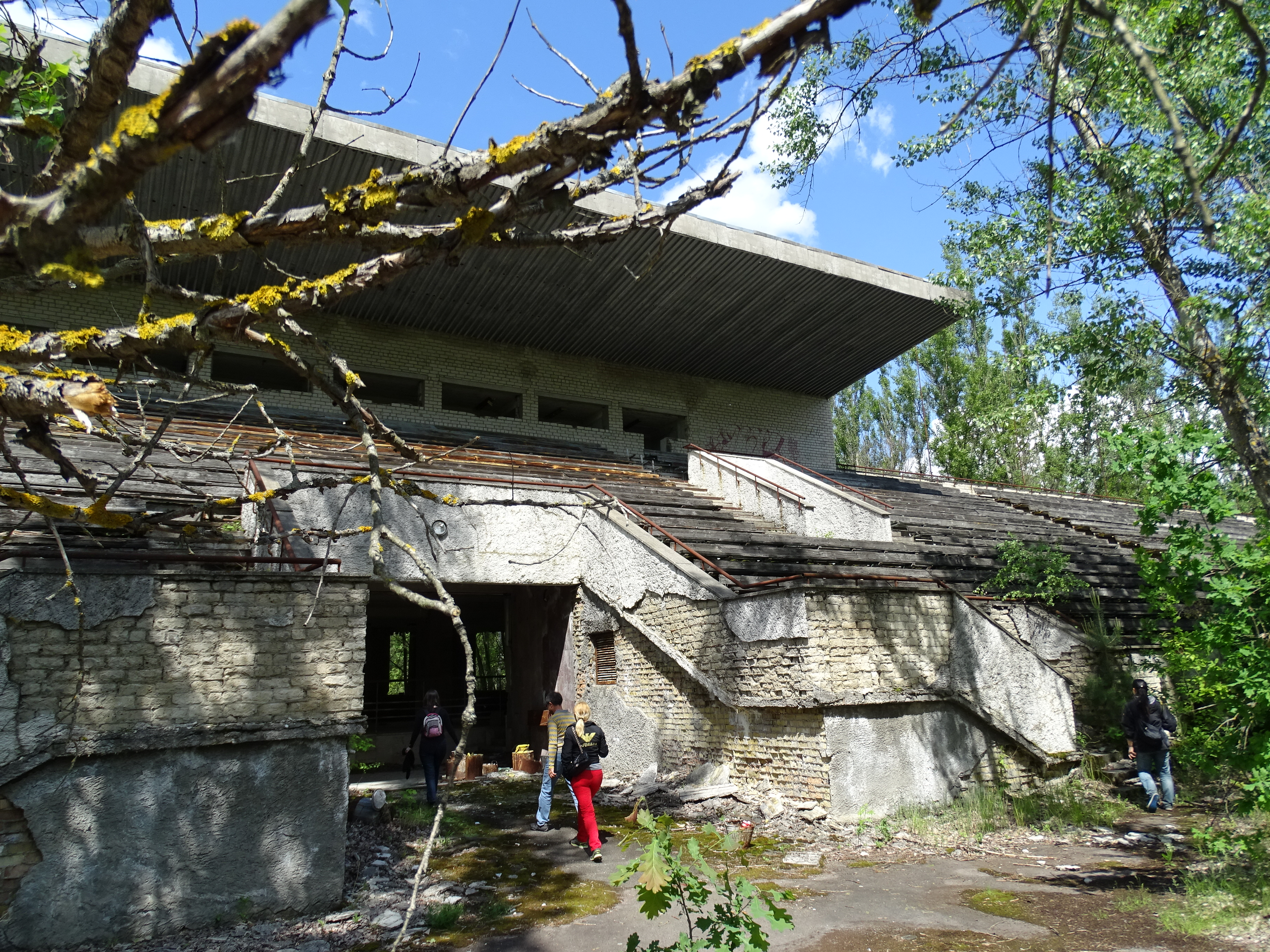 Abandoned Sports Facility - Pripyat Ghost Town - Chernobyl Exclusion Zone - Northern Ukraine - 02